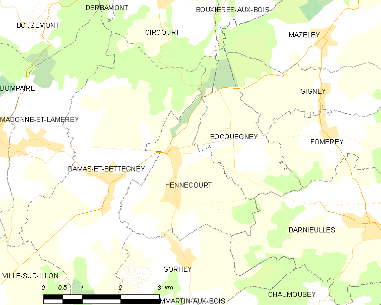 Map of French municipality Hennecourt